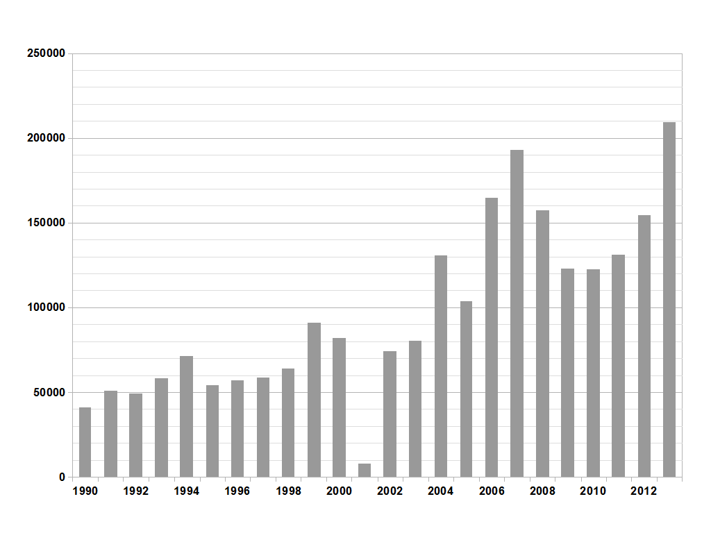 Afganistan opium poppy cultivation in hectares. In July 2000, the Taliban banned the cultivation of opium poppies. Cultivation was restored when Afghanistan was invaded, in October, 2001. Data from United Nations Office on Drugs and Crime.[1]